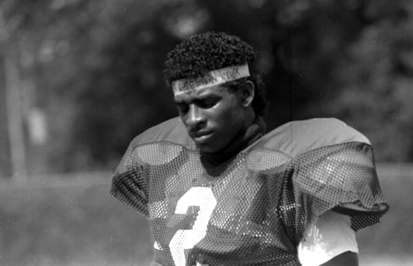 Local call number: DND0942 Title: FSU football player Deion Sanders: Tallahassee, Florida Date: ca. 1988 General note: Deion Sanders was born in Fort Myers, Florida on August 9, 1967. He excelled at three sports in both high school and college: track, baseball and football. Sanders played Cornerback and returned punts for Bobby Bowden at Florida State University. While at FSU, Sanders set records for career punt return yards and for the longest interception return for a touchdown. He also played outfield for the baseball team and ran track & field. Sanders won the Jim Thorpe Award in 1988, given to the nation's top defensive back. He went on to play parts of nine seasons in Major League Baseball, although he is most well-known for his career in professional football. Sanders played for five NFL teams over 14 seasons. He was selected to the Pro Bowl eight times, won the Defensive Player of the Year award in 1994, and played on two Super Bowl Championship teams (San Francisco, 1994; Dallas, 1995). In 2011, Sanders was inducted into both the College Football and Professional Football halls of fame. Physical descrip: 1 photonegative - b&w - 35 mm. Series Title: Donn Dughi collection Repository: State Library and Archives of Florida, 500 S. Bronough St., Tallahassee, FL 32399-0250 USA. Contact: 850.245.6700. Persistent URL